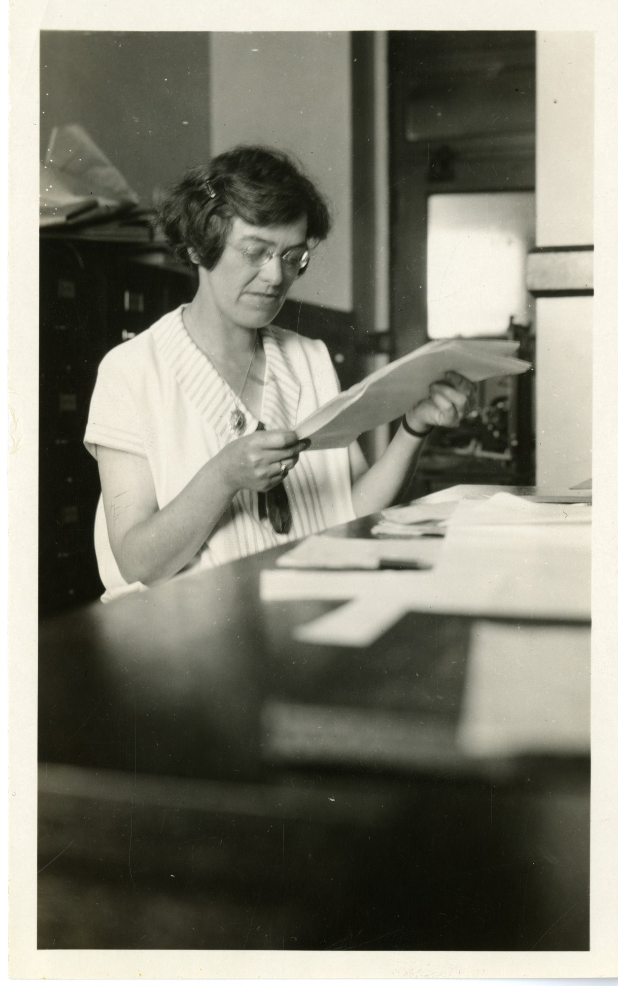 Subject: Kobelt, Nina 1884-1973 Rockefeller Institute Type: Black-and-White Prints Topic: Biology Local number: SIA Acc. 90-105 [SIA-SIA2008-4908] Summary: Nina Kobelt (1884-1973) was the secretary of Rockefeller Institute biologists Jacques Loeb (1859-1924) and Winthrop John Van Leuven Osterhout (1894-1961) and compiled the definitive bibliography of Loeb's works after his death. Cite as: Acc. 90-105 - Science Service, Records, 1920s-1970s, Smithsonian Institution Archives Persistent URL:Link to data base record Repository:Smithsonian Institution Archives View more collections from the Smithsonian Institution.